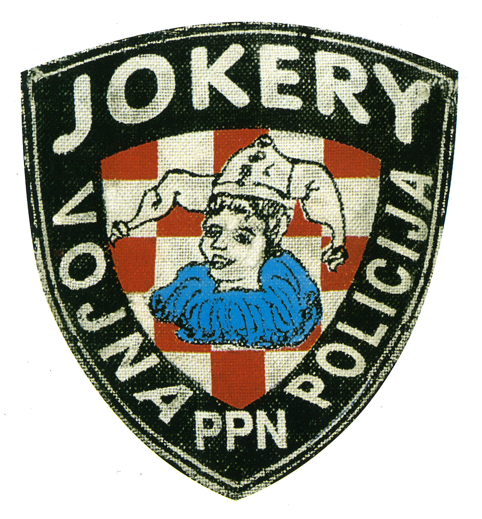 Patch of the special purpose unit (PPN) "Jokery" of the Croatian Defense Council (Hrvatsko vijeće obrane - HVO). Bosnian war, ca. 1993.